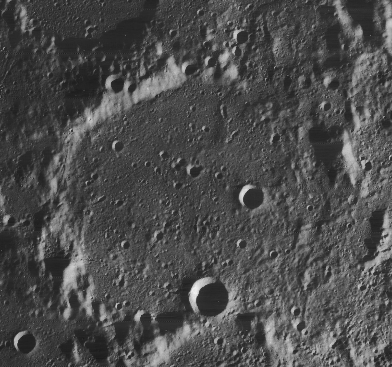 Mouchez, near the north pole of the moon.